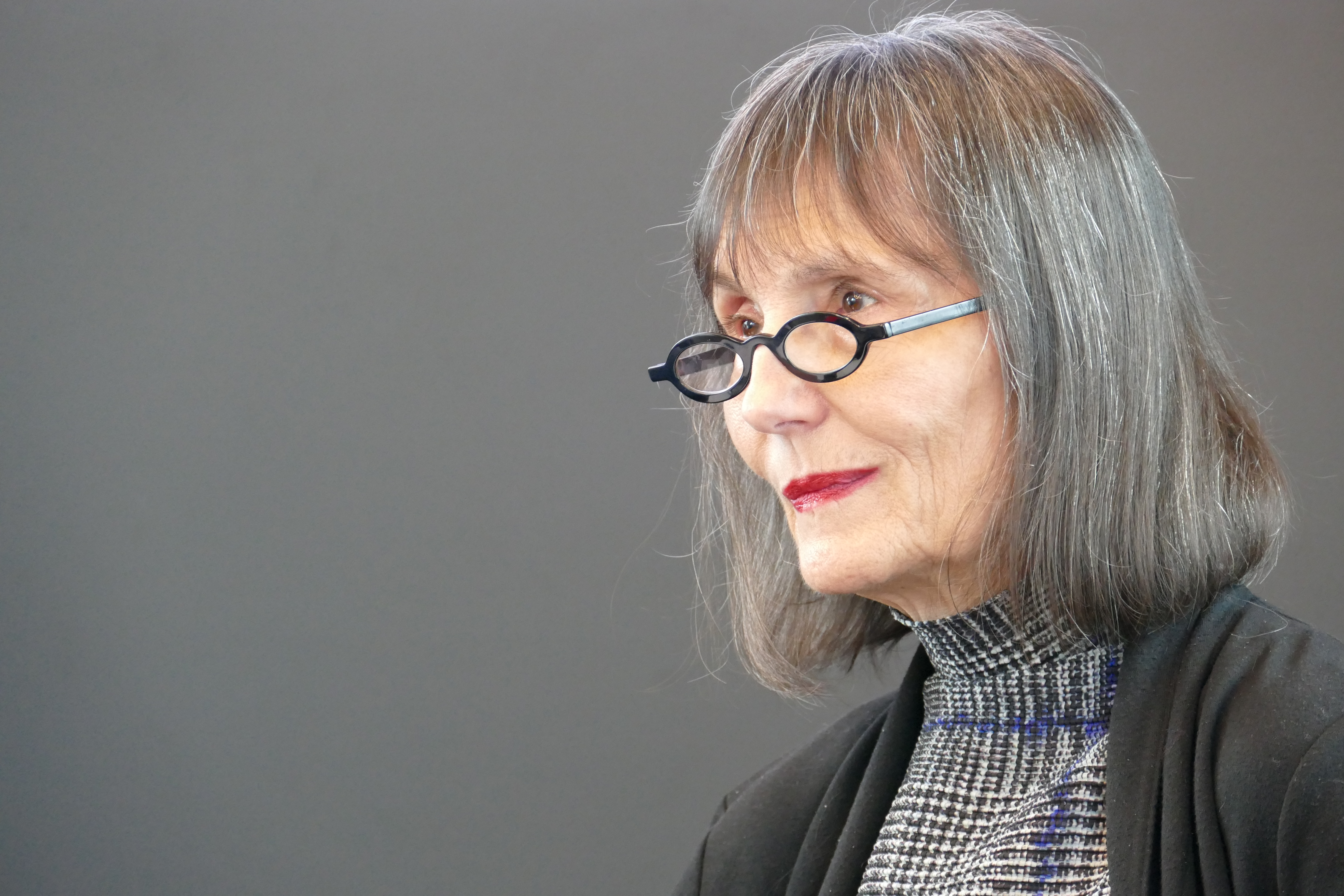 The Swiss literary critic ans writer Ilma Rakusa at a panel discussion at Fokus Lyrik 2019 in Frankfurt